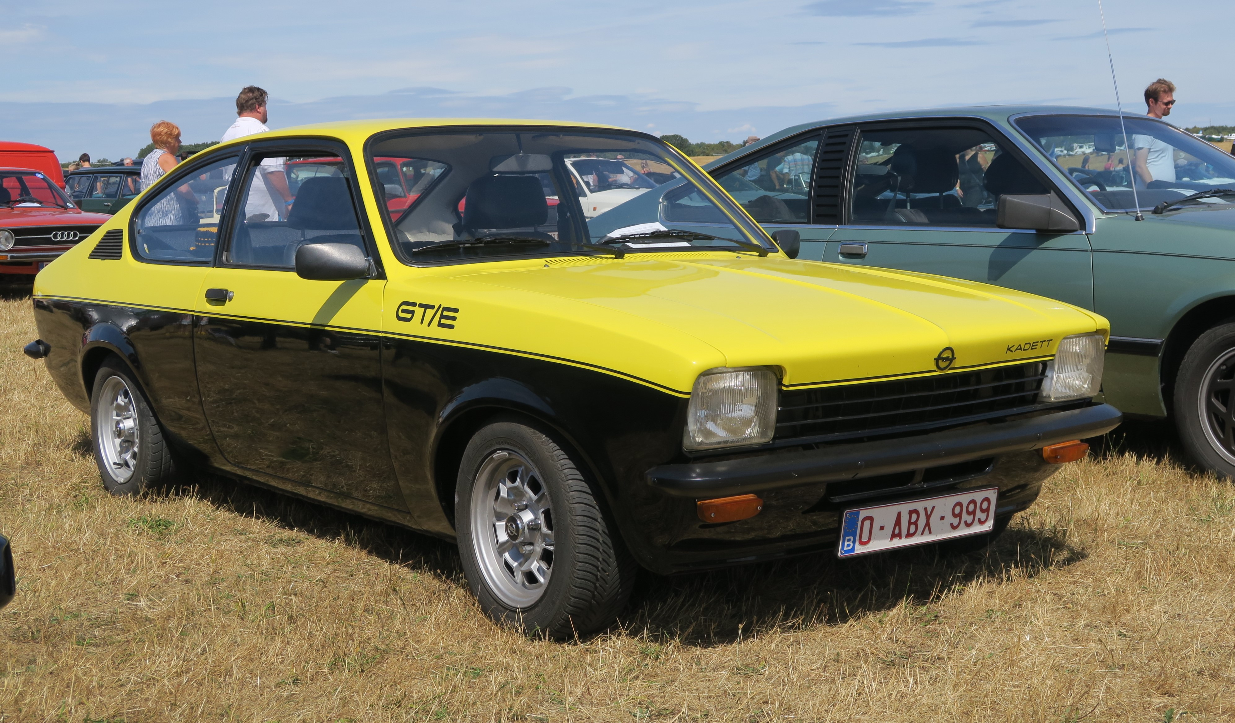 Opel Kadett C Coupé GTE